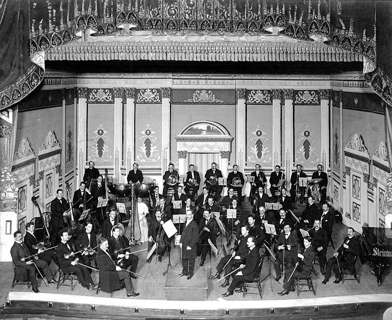 On verso of image: The Seattle Symphony Orchestra, March 1908 Subjects (LCTGM): Seattle Symphony Orchestra; Orchestras--Washington (State)--Seattle; Concert halls--Washington (State)--Seattle; Architectural decorations & ornaments--Washington (State)--Seattle; Stages (Platforms)